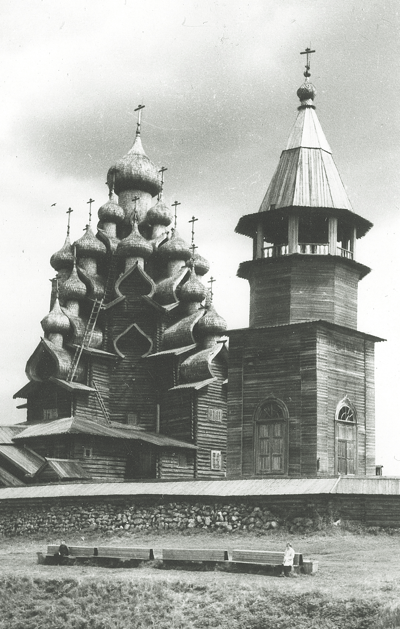 Belltower with the Church of the Transfiguration behind it